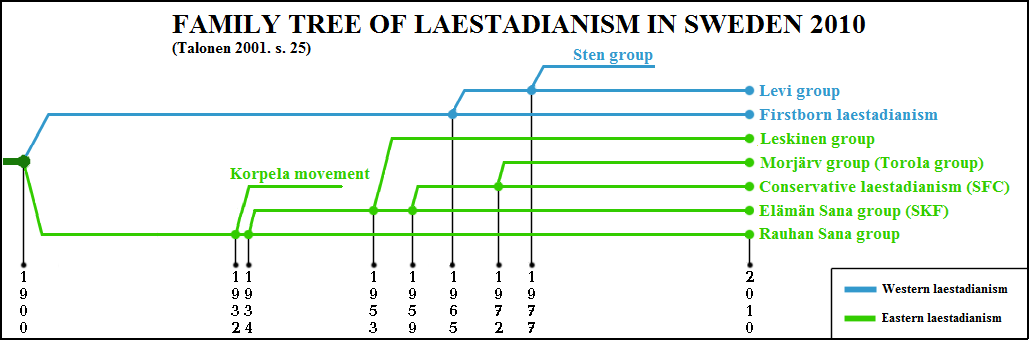 Family tree of laestadianism in Sweden 2010. Includes defunct groups also.